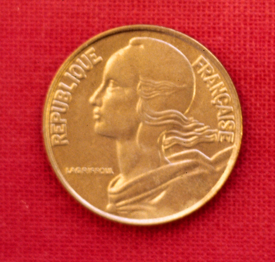 Lagriffoul's Marianne, coin of 20 centimes